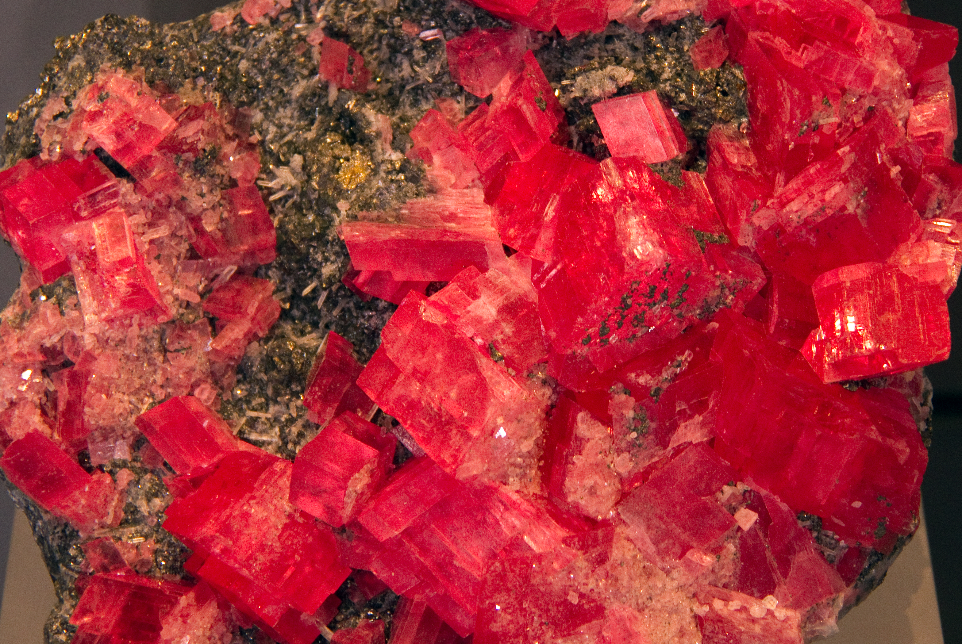 Rhodochrosite, Sweet Home mine, Alma, Colorado. Size 15 x 13 x 7 cm. Part of the Rocks and Minerals display in the Royal Ontario Museum Toronto